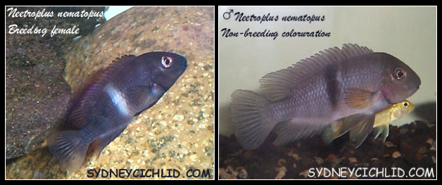 Neetroplus nematopus (Cichlidae), showing normal/breeding colouration (male & female). own fish, own photos. Photo: Dr. David Midgley originally posted on MidgleyDJ 03:21, 5 August 2006 (UTC)